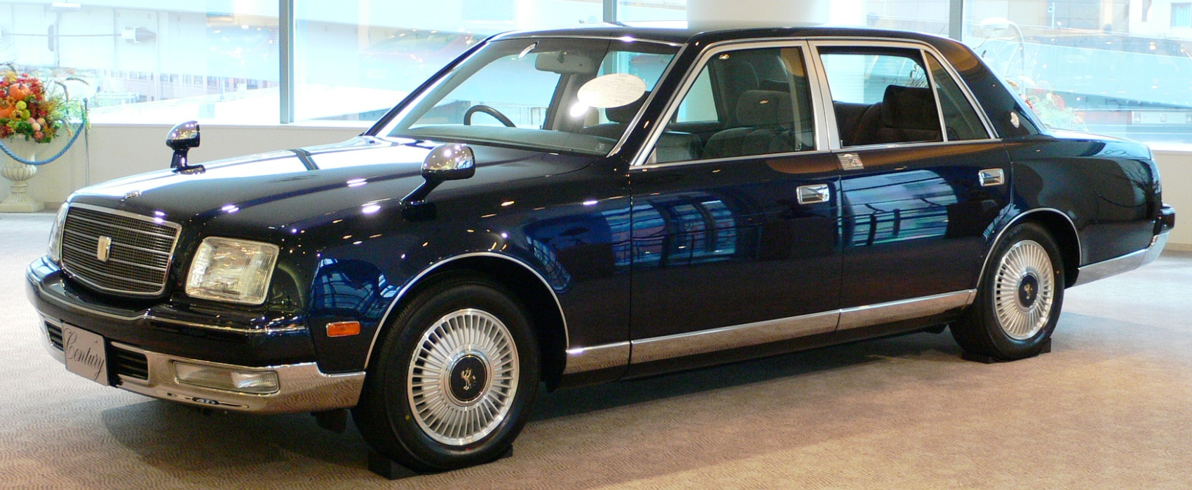 Toyota_Century(1997) taken in Showroom of Toyota-AMLUX